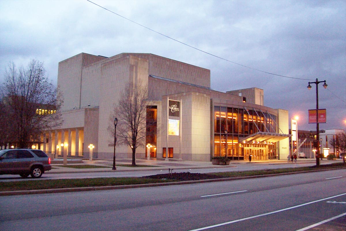 Copyright © 2005 Sulfur The Marcus Center for the Performing Arts is an arts and entertainment venue located in the heart of downtown Milwaukee, Wisconsin.